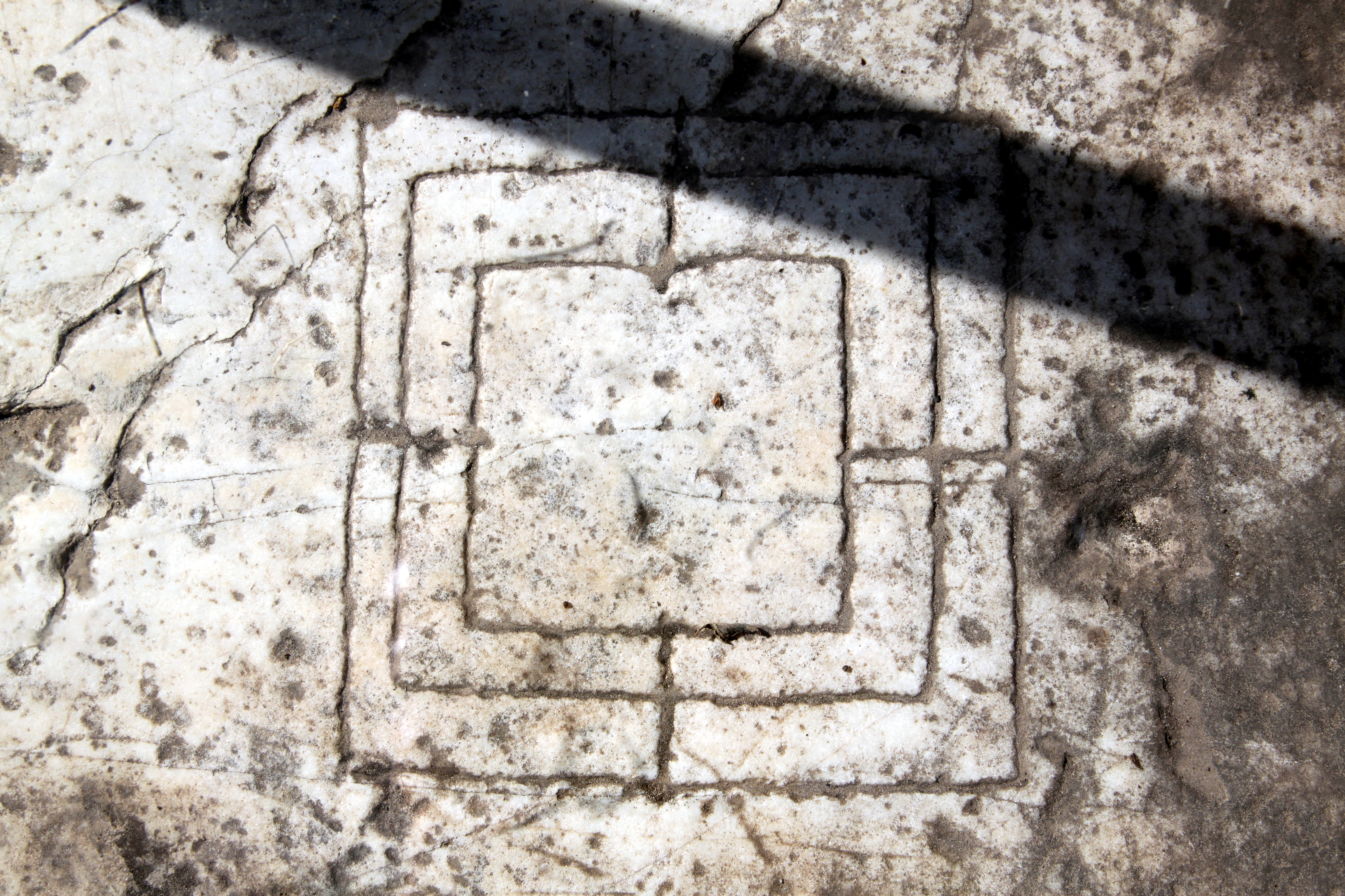 Rocca San Silvestro: A Nine Men's Morris board engraved in a paving block